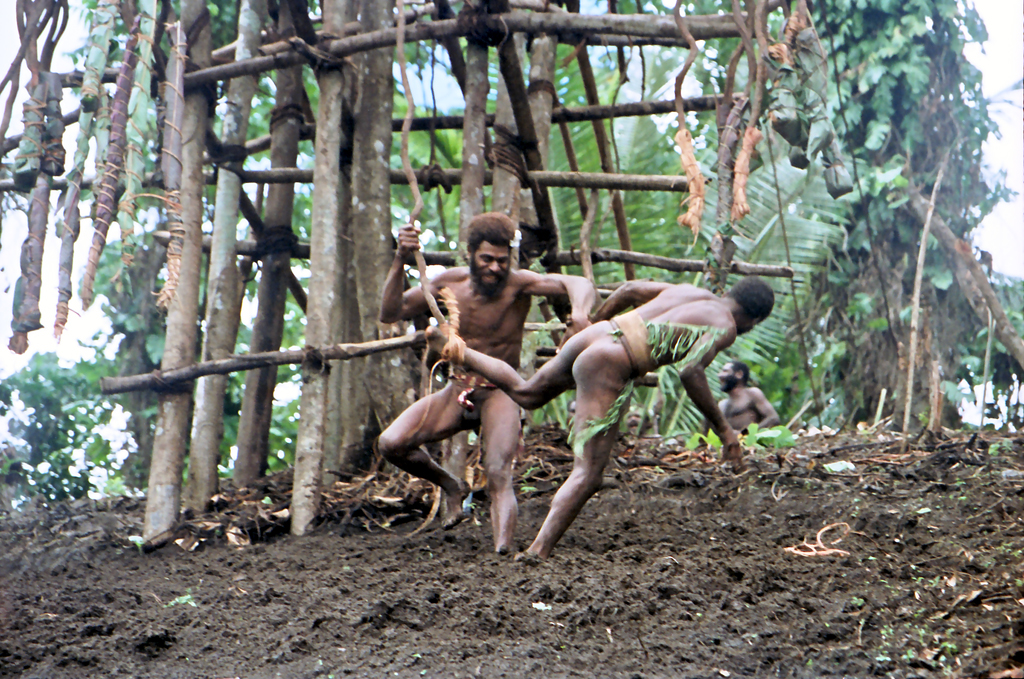 Pentecost Island had a yearly ritual where the men jump from a tower with vines attached to their legs. Vines being cut after a succesful jump. The men are wearing the traditional penis sheaths for the land diving ceremony.